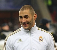 Karim Benzema